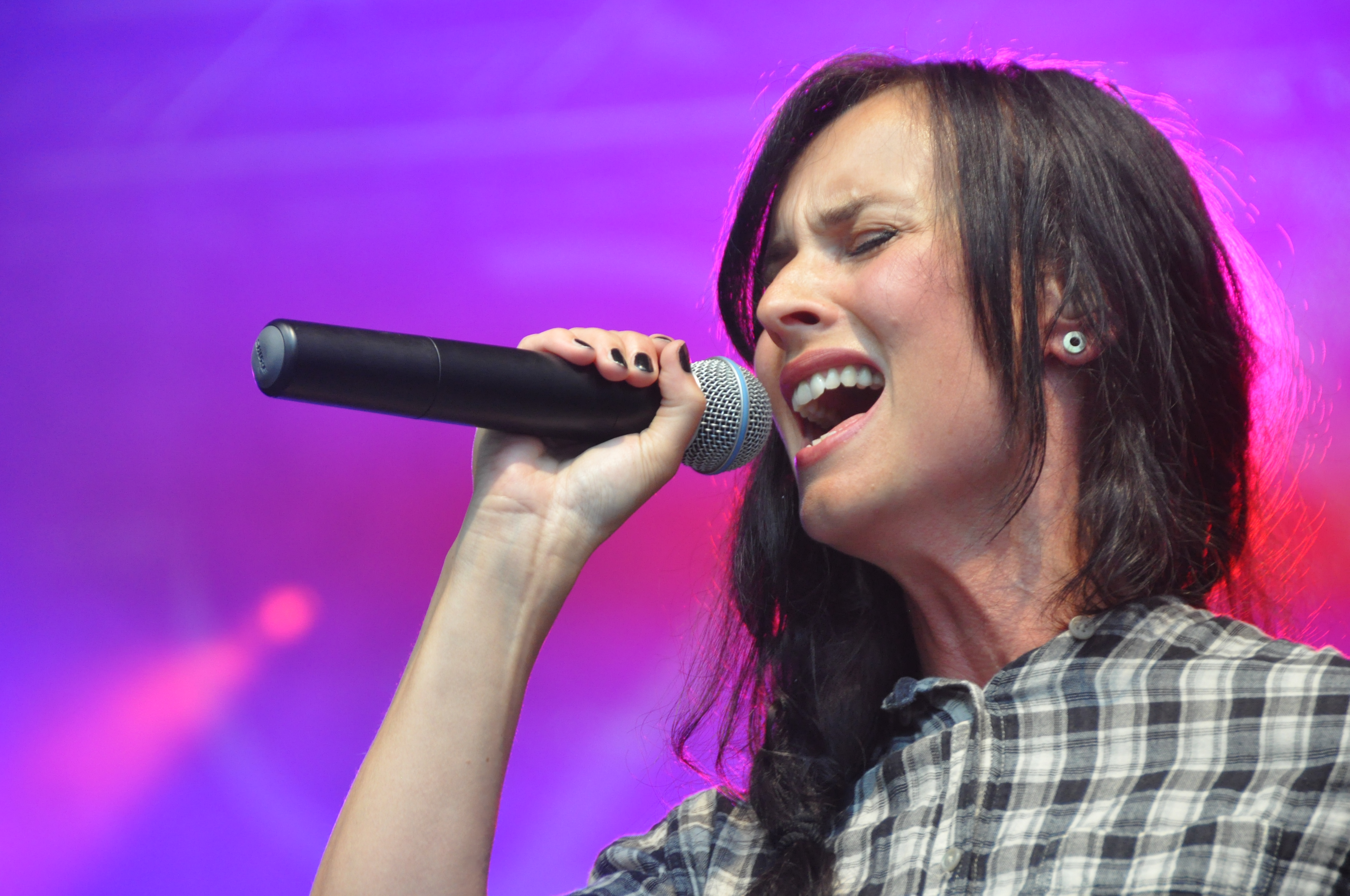 Bell, Book & Candle, appearence at the 1st blacksheep festival in the castle yard / castle park of Bad Rappenau - Bonfeld (Germany)